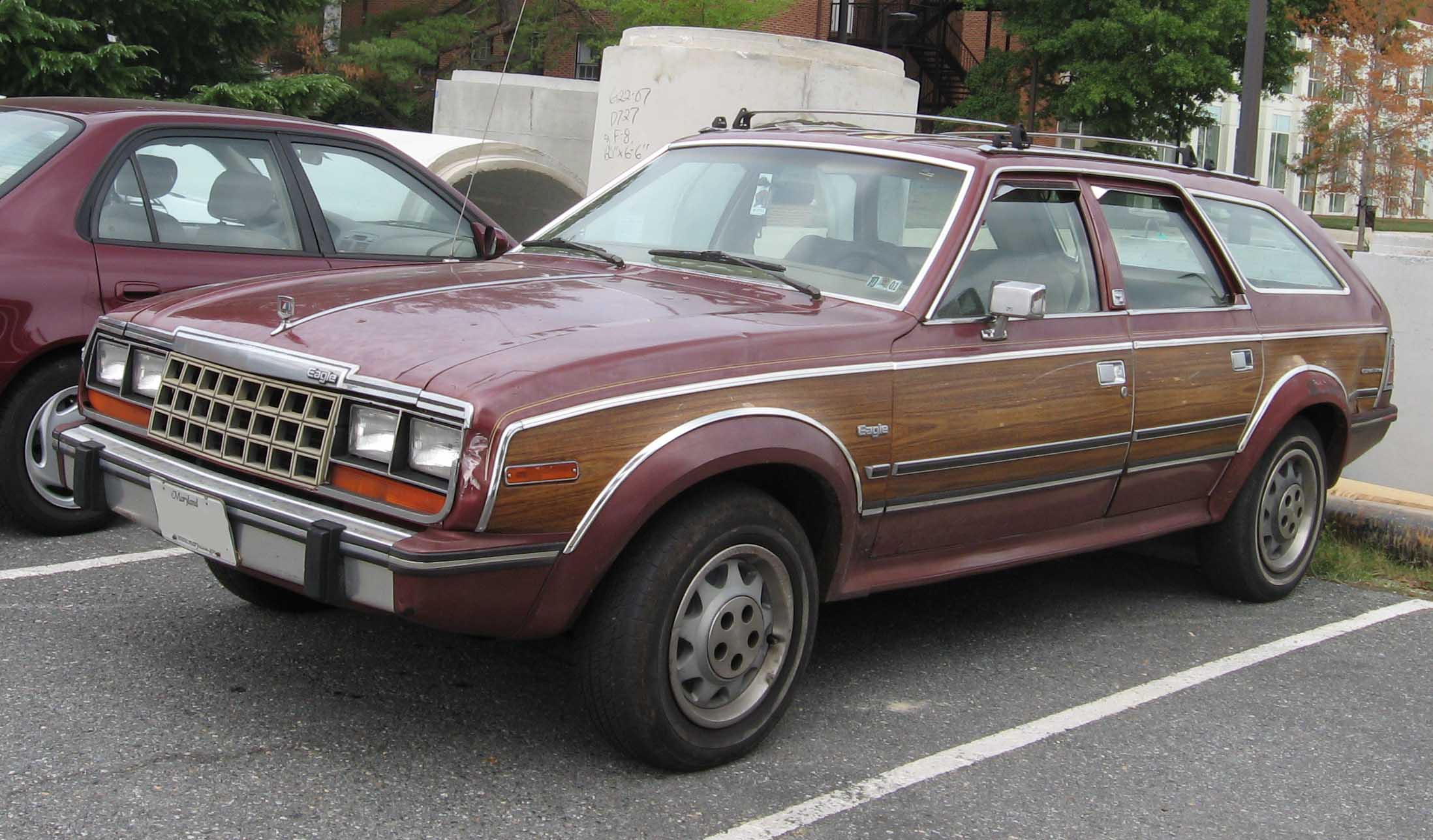 AMC Eagle photographed in College Park, Maryland, USA.